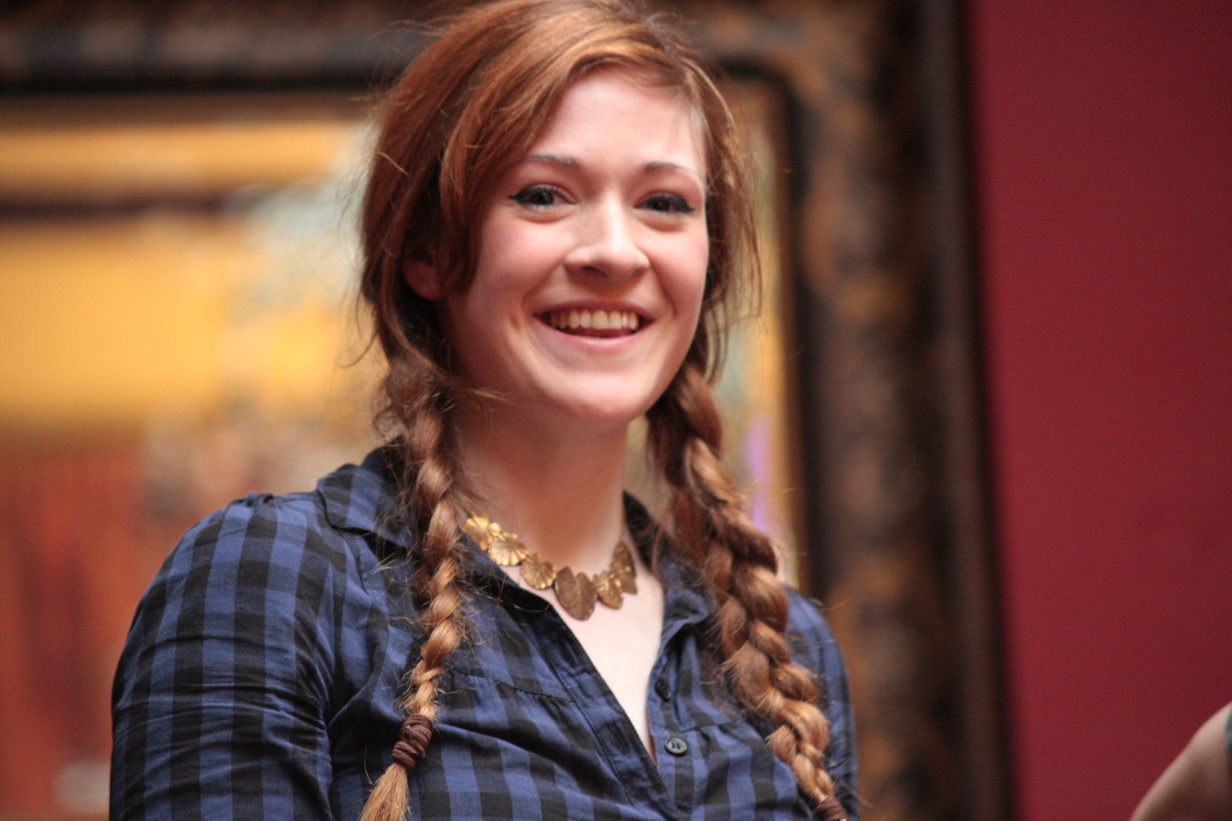 Kat Flint at the video shoot for her single, Go Faster Stripes